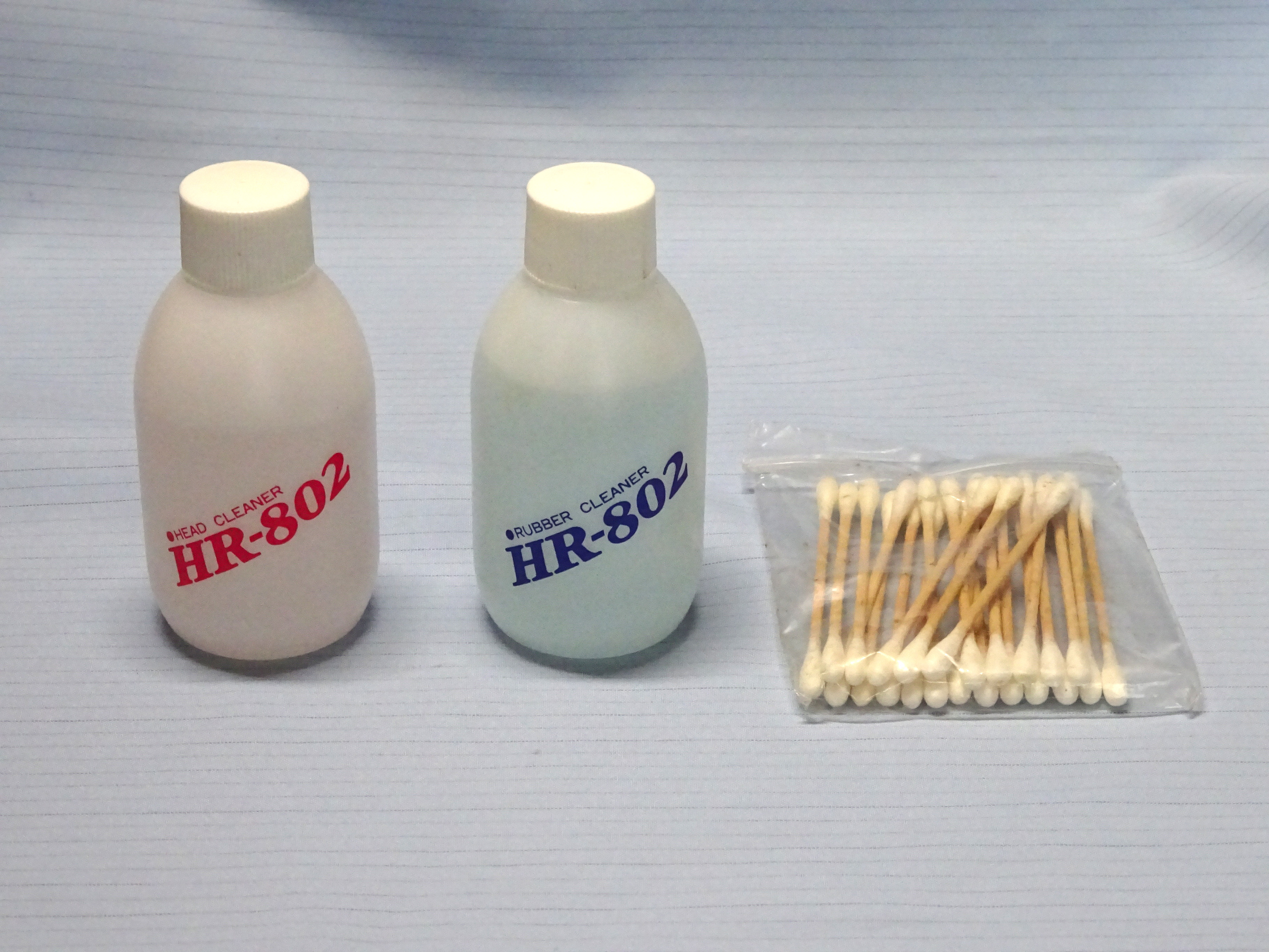 A cleaning kit for compact casette. Head cleaner, rubber cleaner, cotton buds.